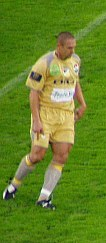 Károly Erős